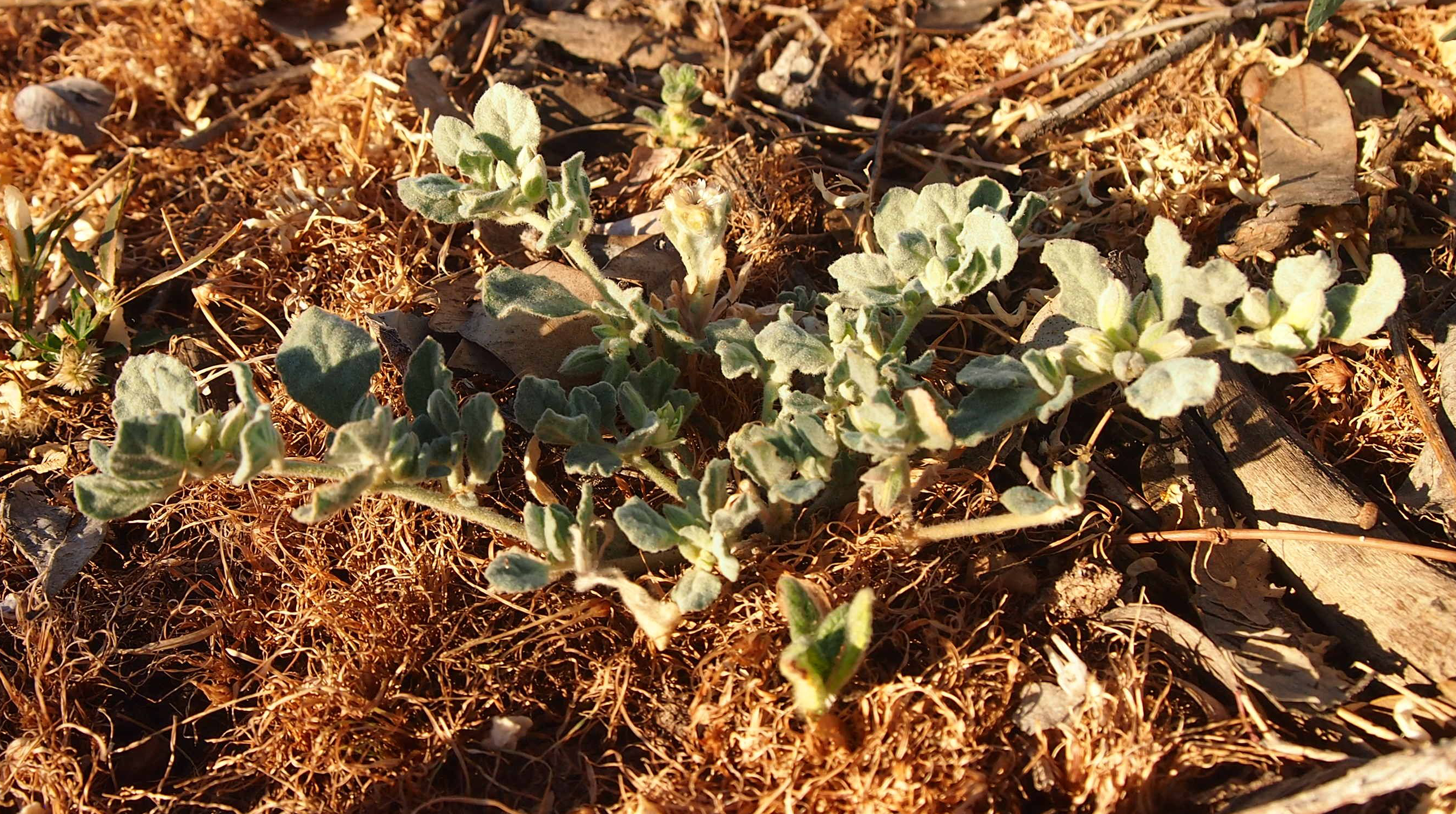 Glinus lotoides habit